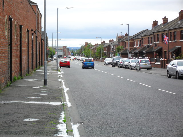 Cambrai Street, Belfast Looking towards the Shankill Road, which Cambrai Street links with the Crumlin Road.